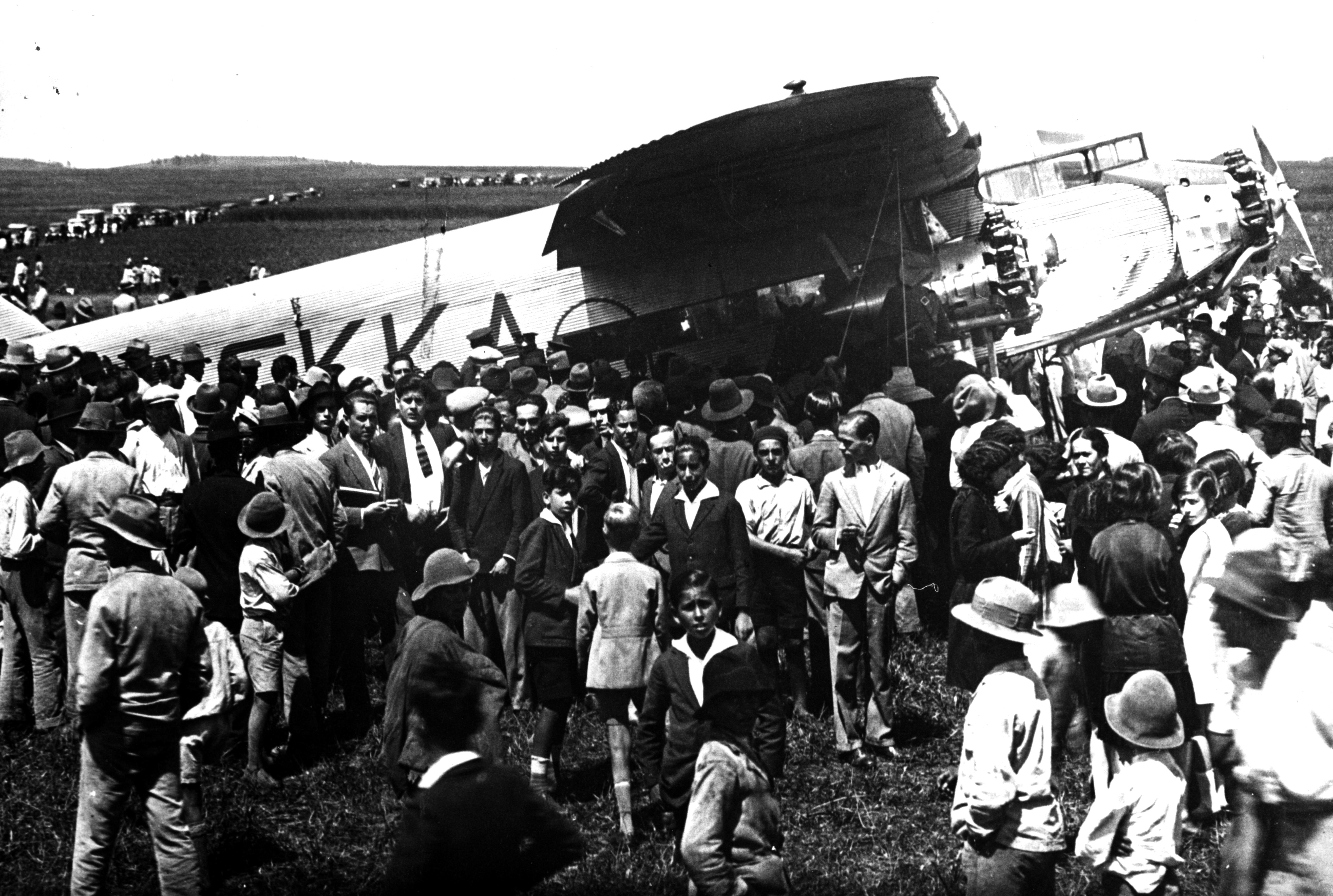 El 20 de mayo de 1930 llegaba al aeropuerto de Los Rodeos (Tenerife Norte) el primer vuelo comercial Península-Canarias. The historic first commercial flight between Peninsular Spain (Getafe) and the Canary Islands by a CLASSA Ford 4 AT trimotor in May 20, 1930.[1] Voo da Iberia entre Madri e as Ilhas Canárias. Primo volo inaugurale Madrid - Canarie (1930) Erster Flug vom Festland auf die Kanaren (1930) Am 20. Mai 1930 erreiche der erste Flug der Iberia vom Festland nach Teneriffa den Flughafen Los Rodeos (Nordteneriffa).